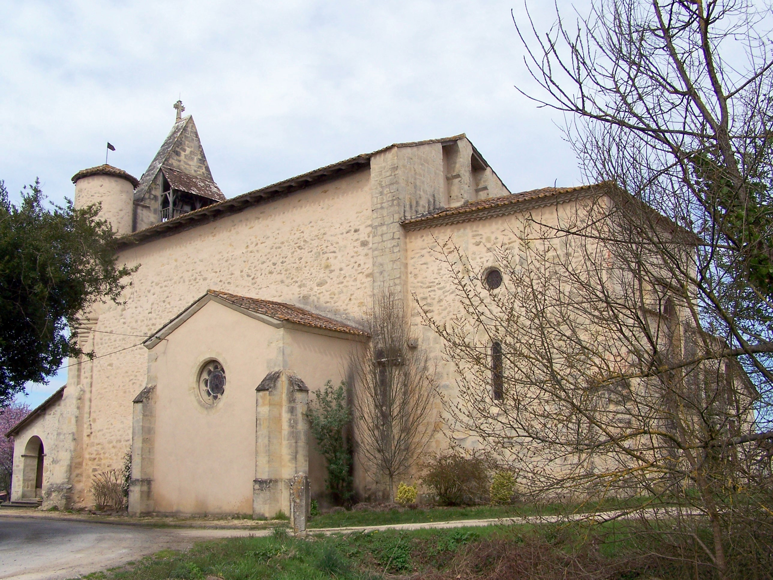 Church of Gans (Gironde, France)